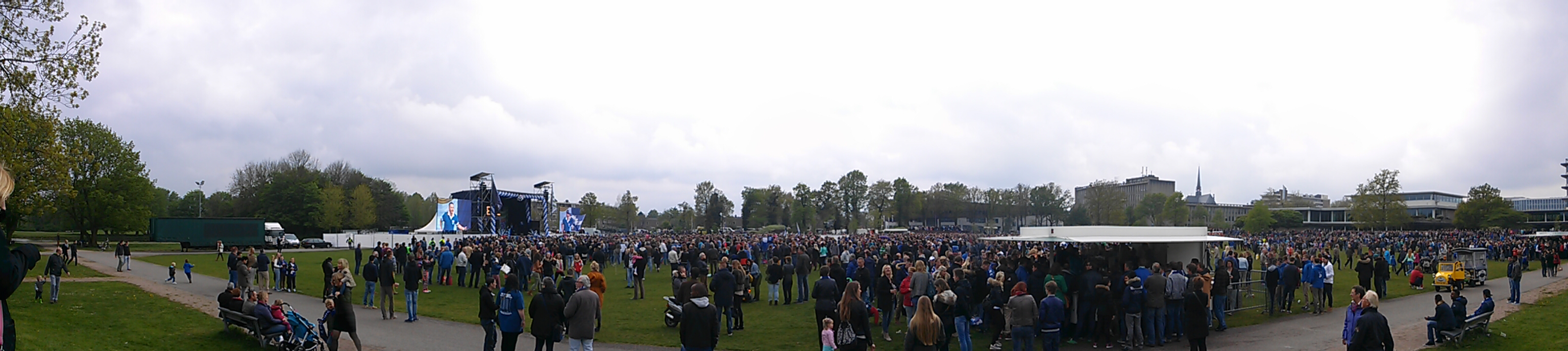 Panorama Park de Wezenlanden honouring PEC Zwolle after winning the cupfinal against AFC Ajax